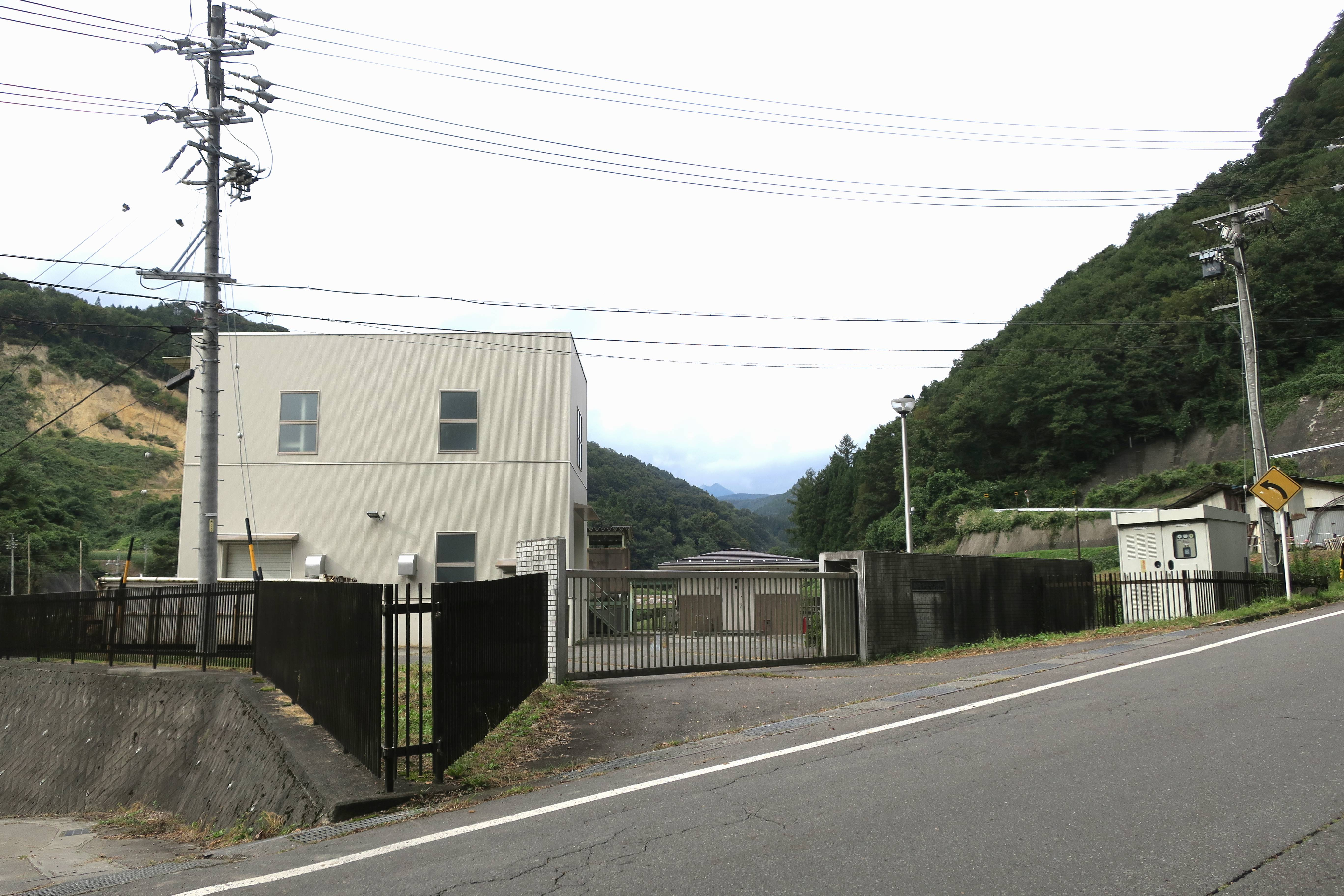 Toyooka jōka center (Nagano, Nagano).